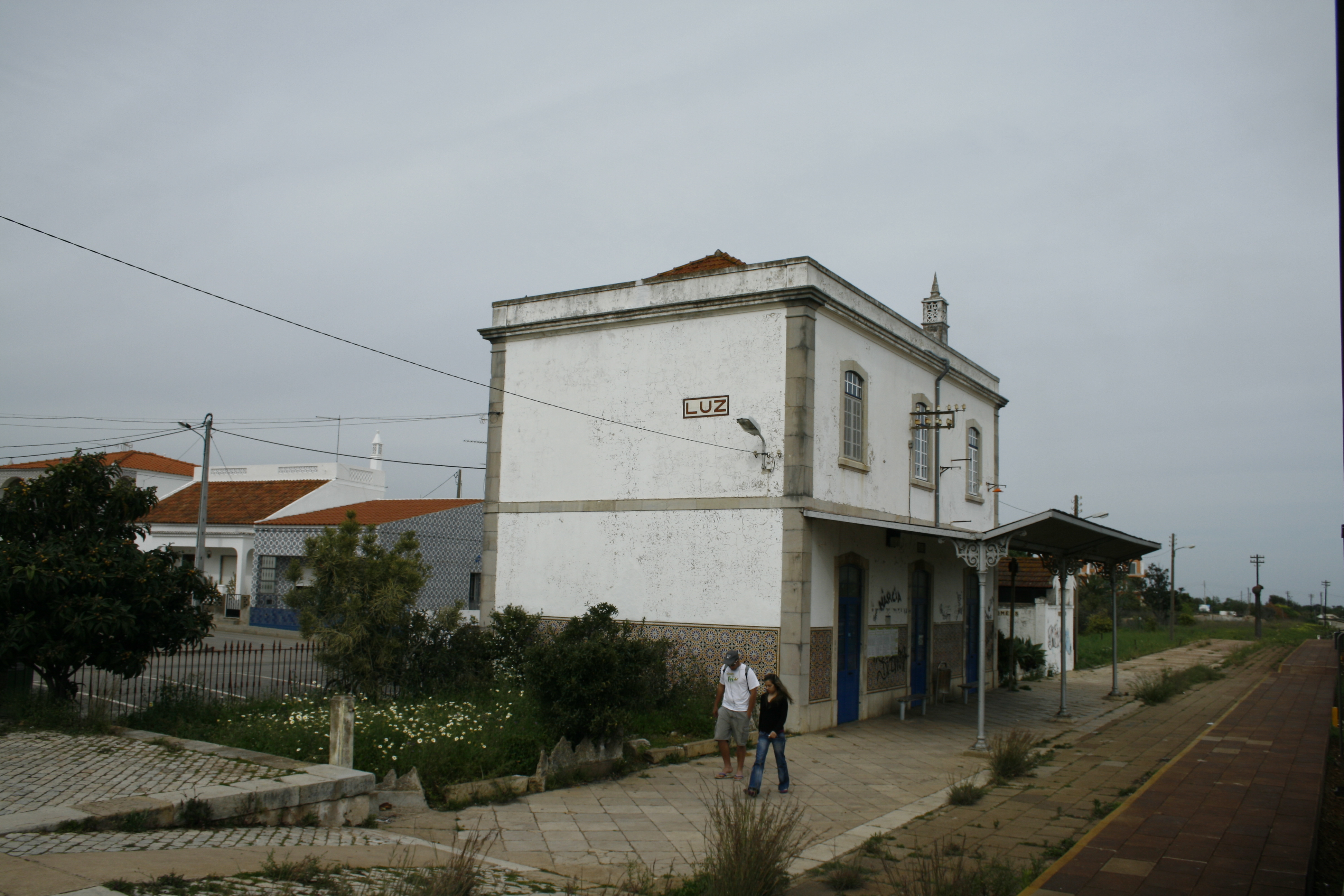 Luz Halt, in the Algarve Line, Portugal.